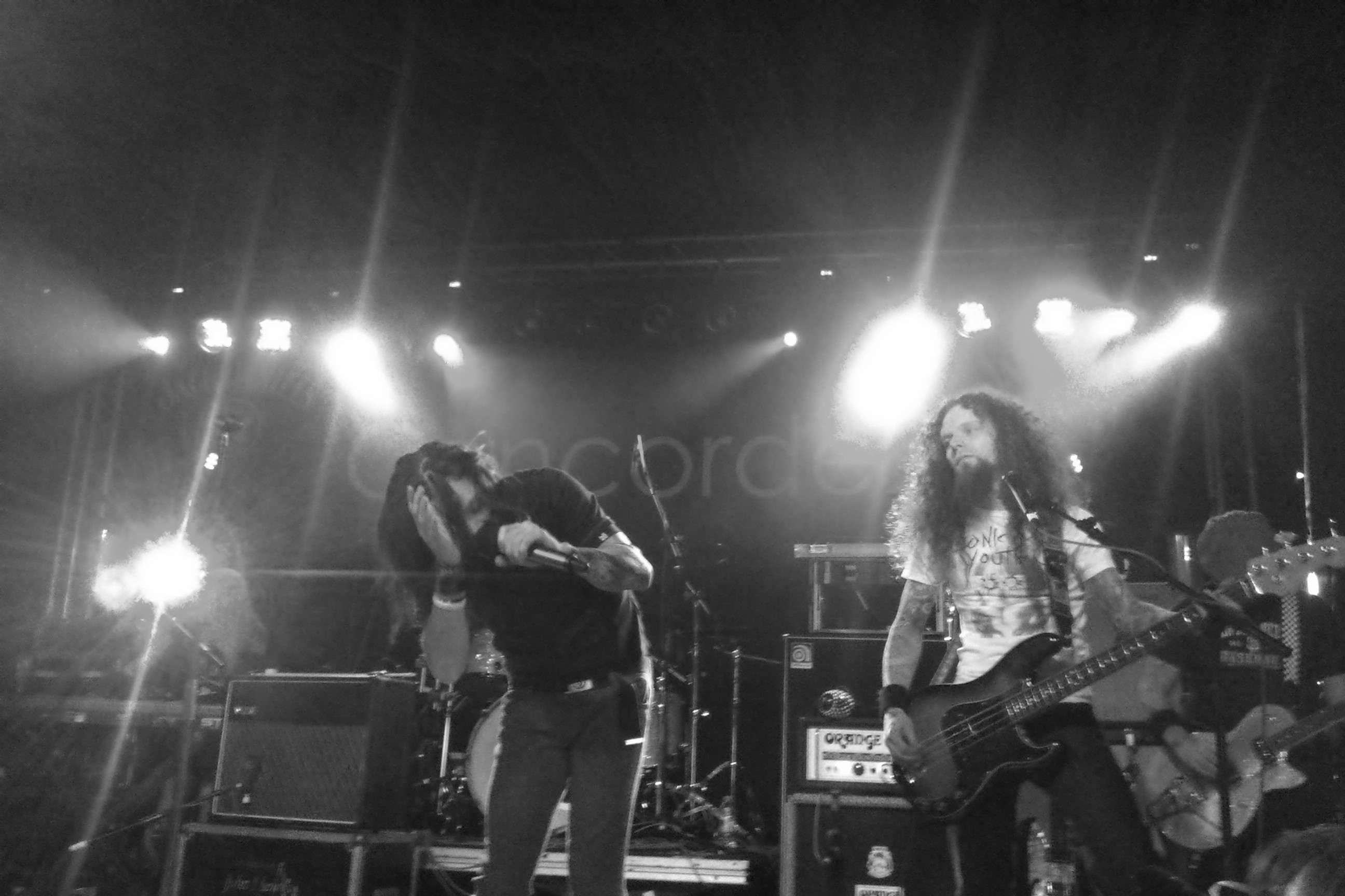 Your Favorite Enemies playing Concorde2, Brighton for The Great Escape